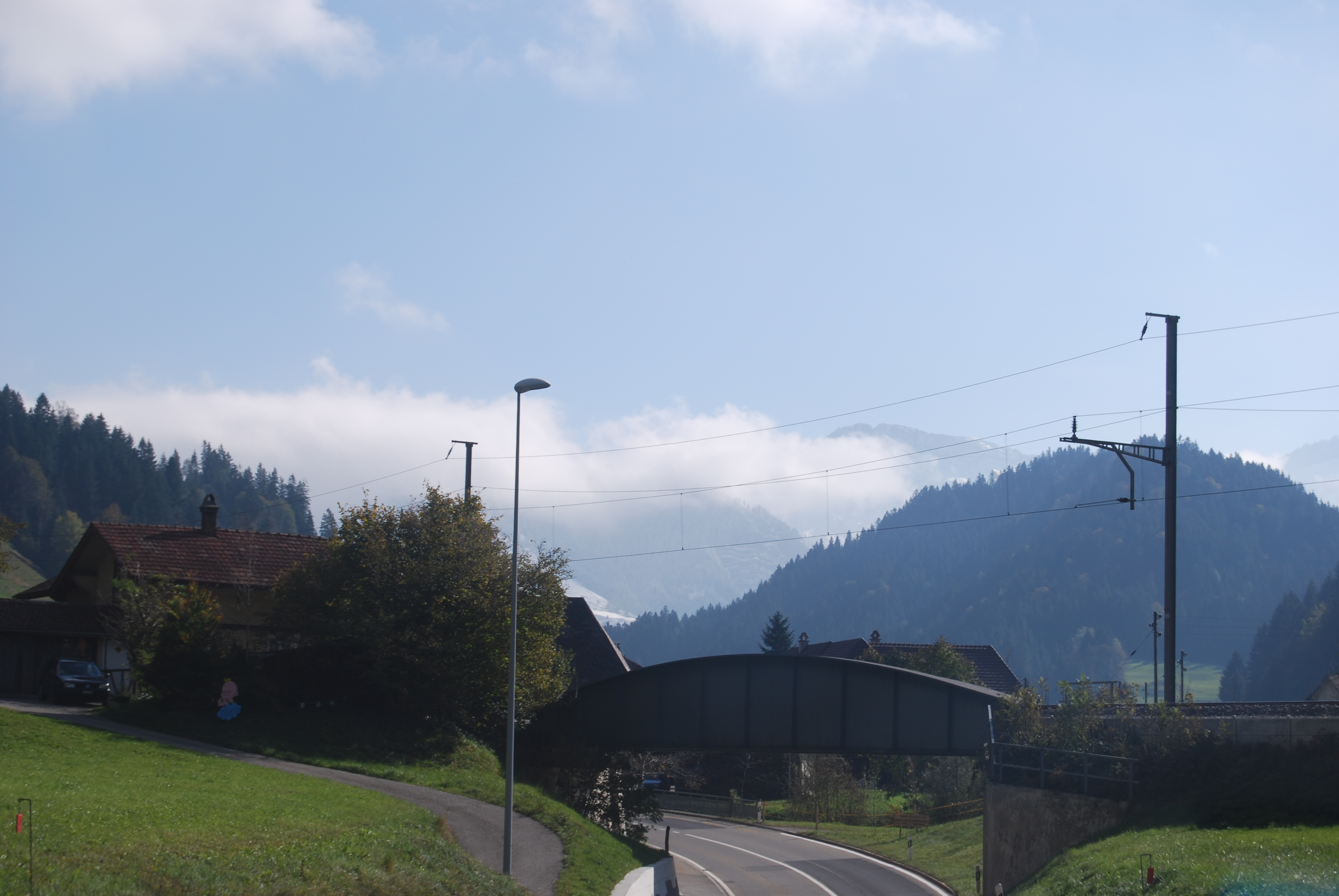 Kröschenbrunnen railway bridge, municipality of Trub, canton of Bern, SwitzerlandEsperanto: Fervojoponto de Kröschenbrunnen, komunumo Trub, Kantono Berno, Svislando